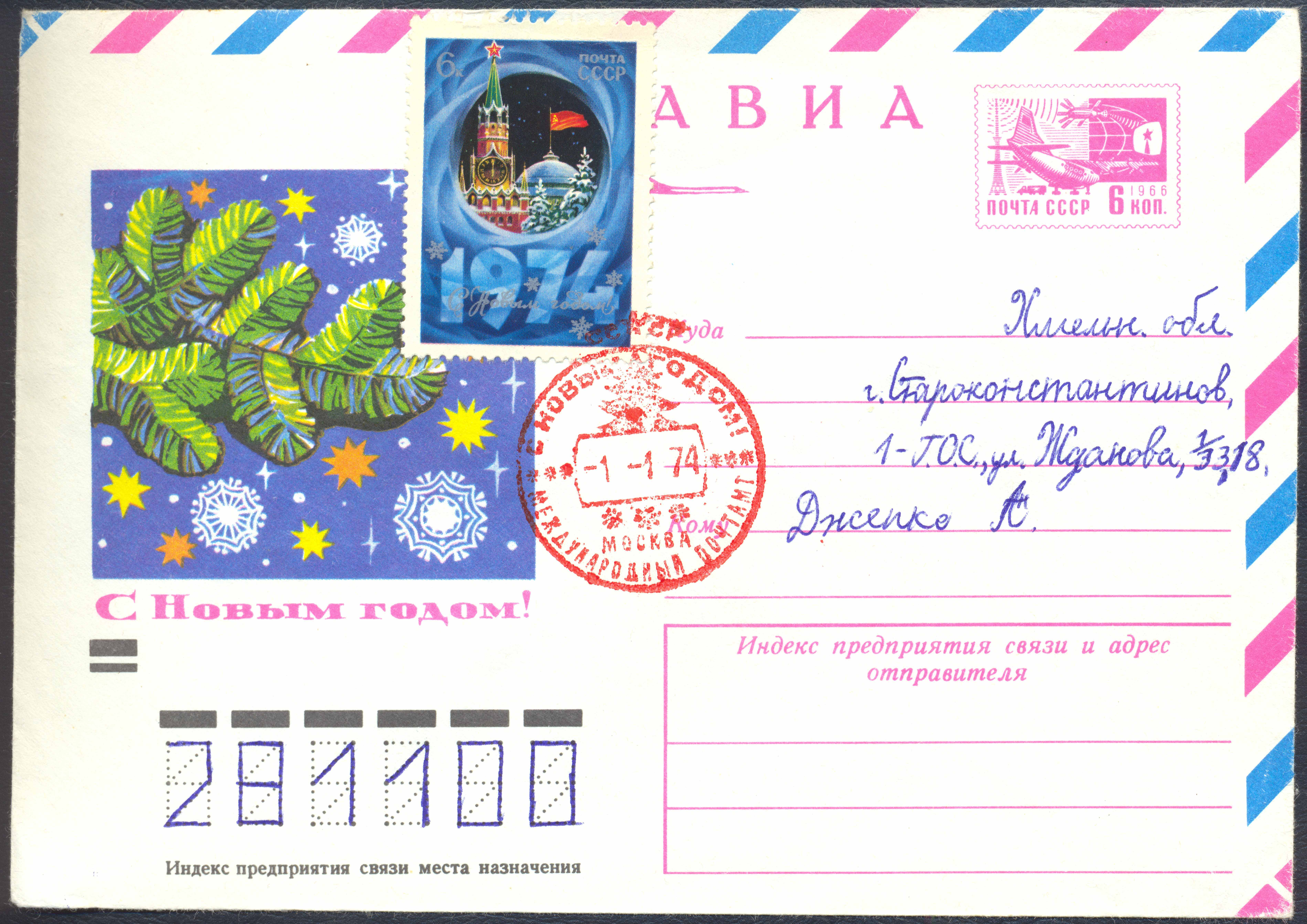 New year cover with New Year 1974 stamp and special New Year postal marking.